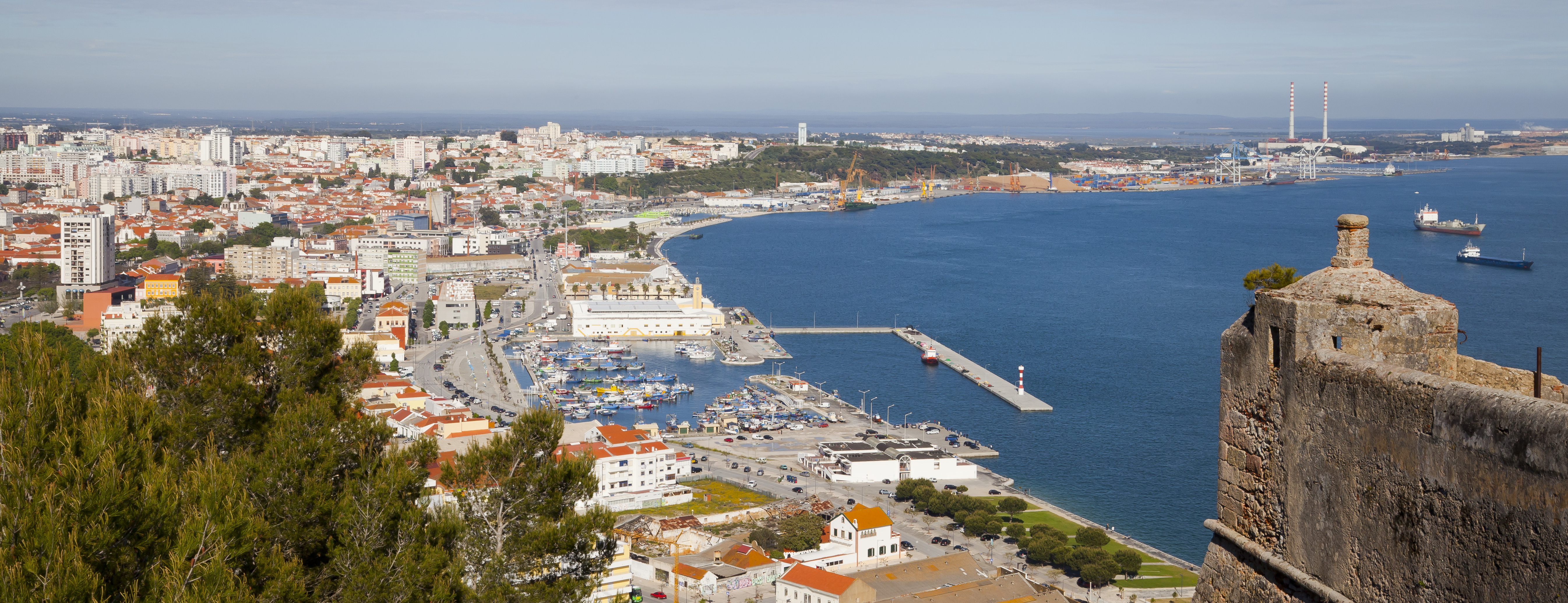 Fort of Saint Philip, Setubal, Portugal